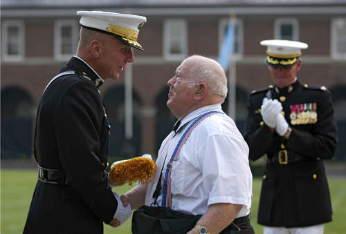 Medal of Honor recipient former United States Marine Corps PFC Jacklyn H. Lucas shakes Marine Corps Commandant Gen. Michael W. Hagee's hand while receiving his Medal of Honor flag during a parade ceremony at the Marine Barracks at 8th & I Streets, in Washington, D.C., August 3, 2006